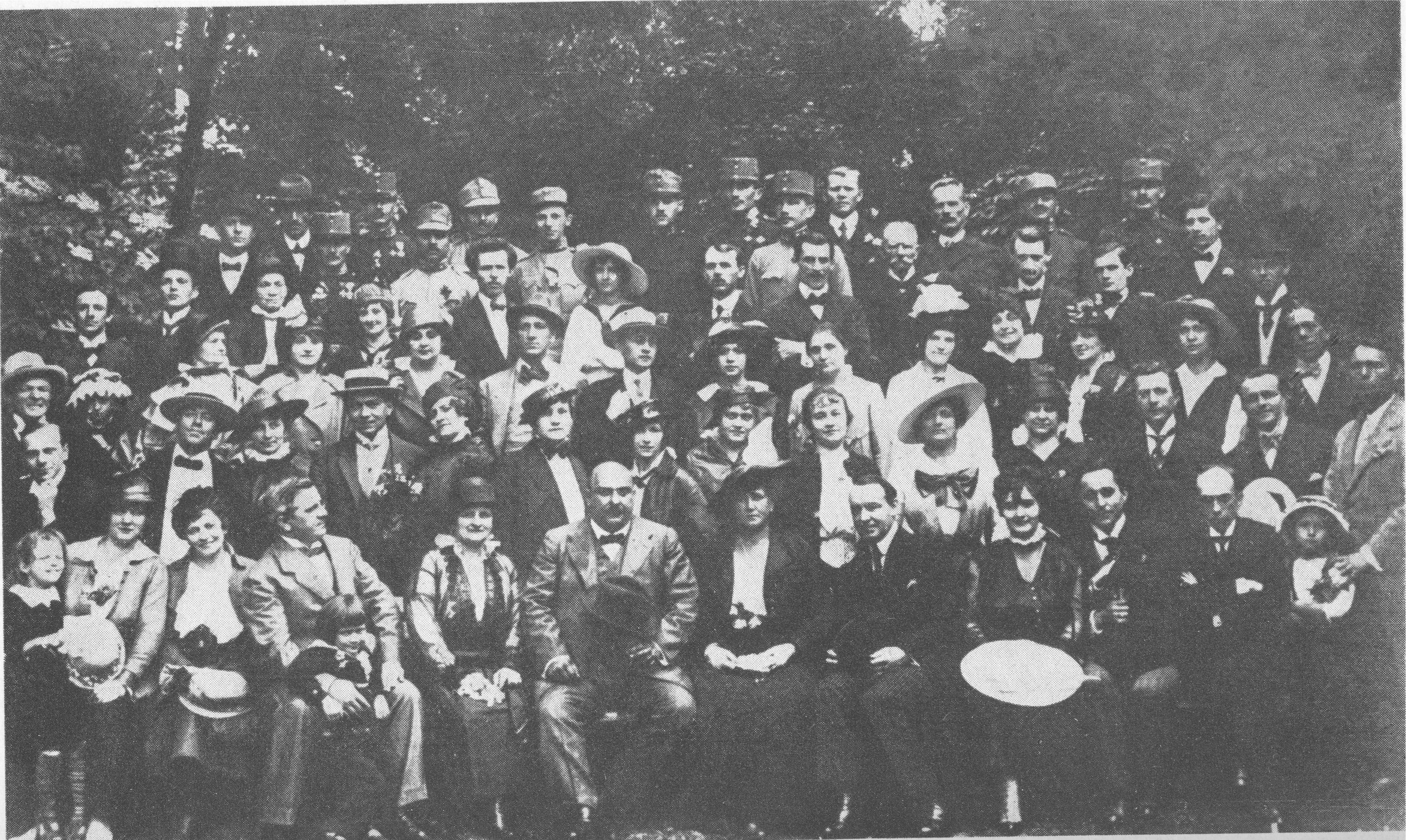 Oskar Nedbal with the East-Bohemian Theatre Troup during 1916 České Budějovice production of his operetta Vinobraní / Die Winzerbraut